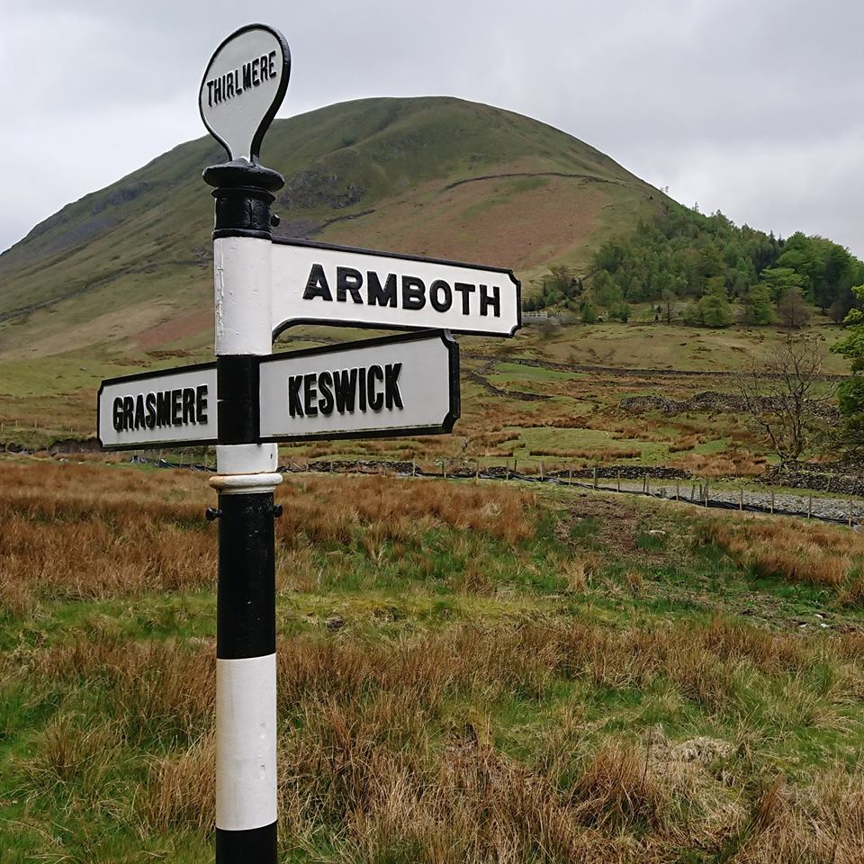 Armboth was abadonded in order to raise the water level in Thirlmere to create a reservoir. The signpost has been preserved in situ.